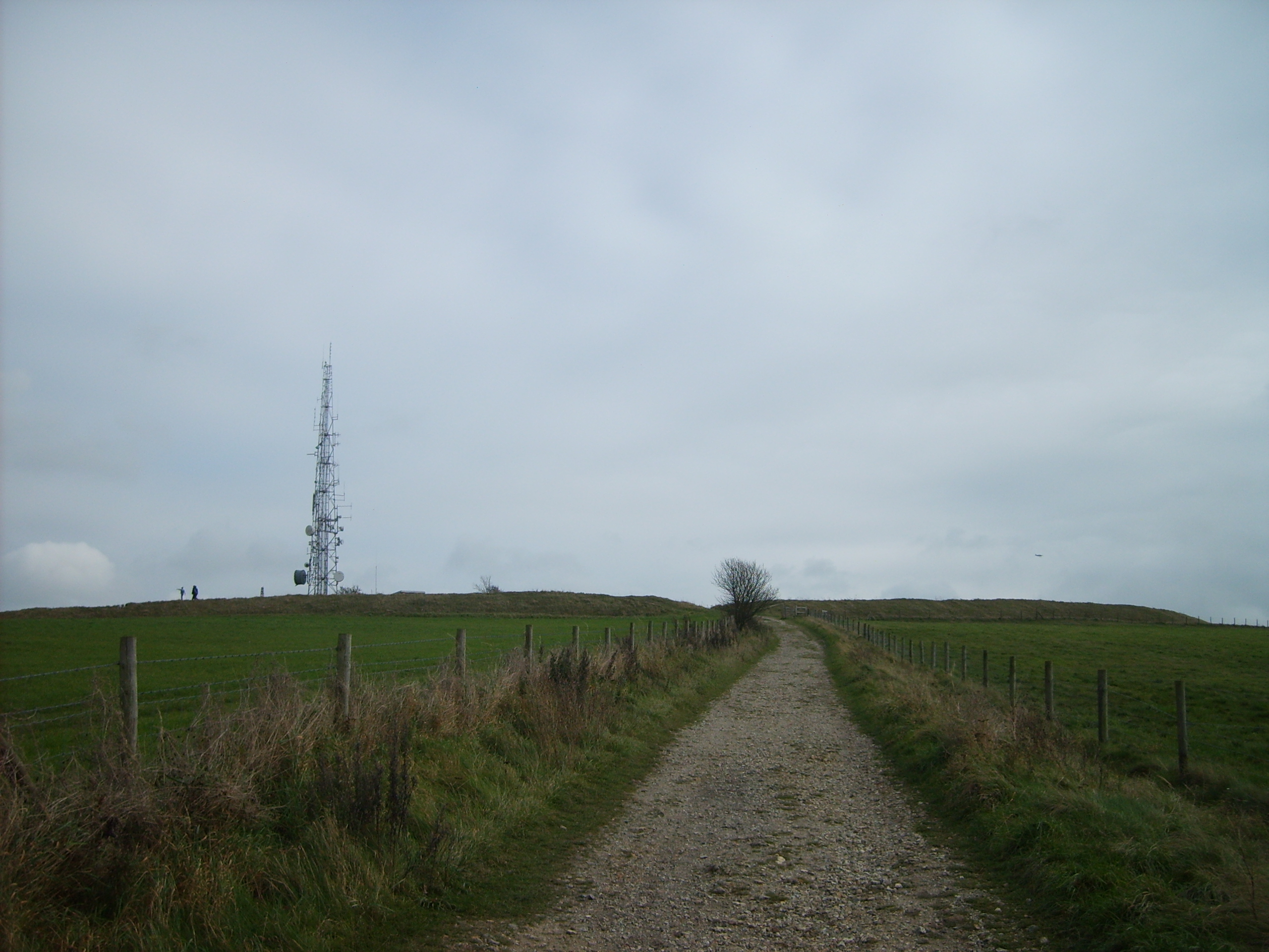 View of the Trundle hillfort near Goodwood Racecourse, West Sussex, UK.